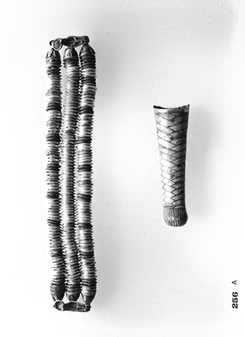 Beard and necklace of Tutankhamun's death mask.